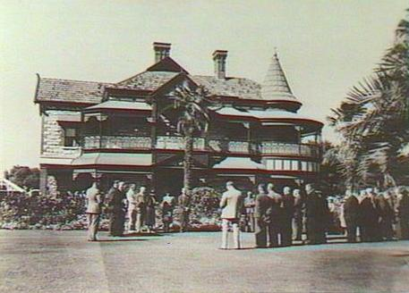 The official handover of "Attunga" by Otto Georg von Rieben to the City of Burnside. The property later became the Burnside War Memorial Hospital.